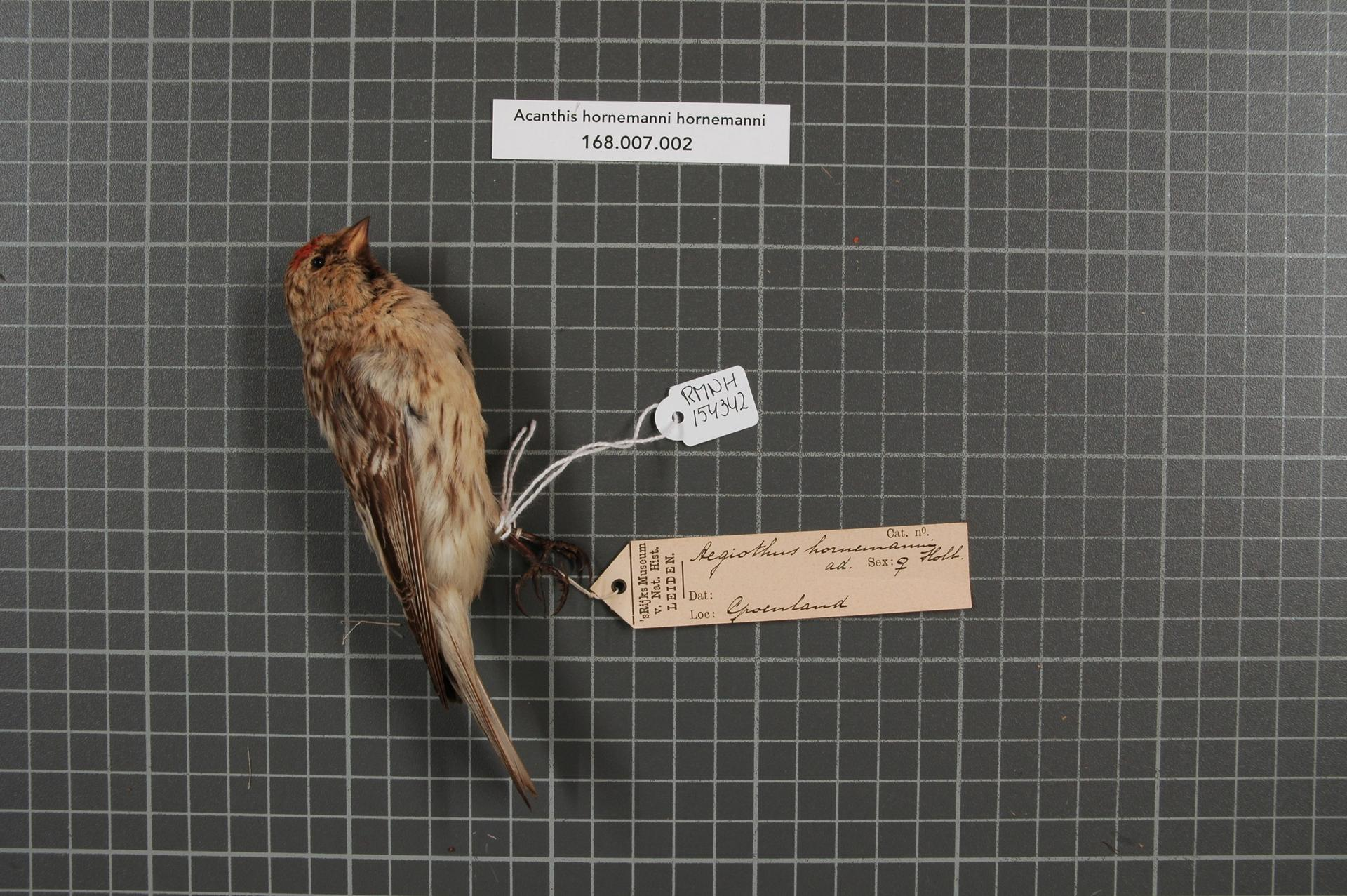 Acanthis hornemanni hornemanni Holboell, 1843